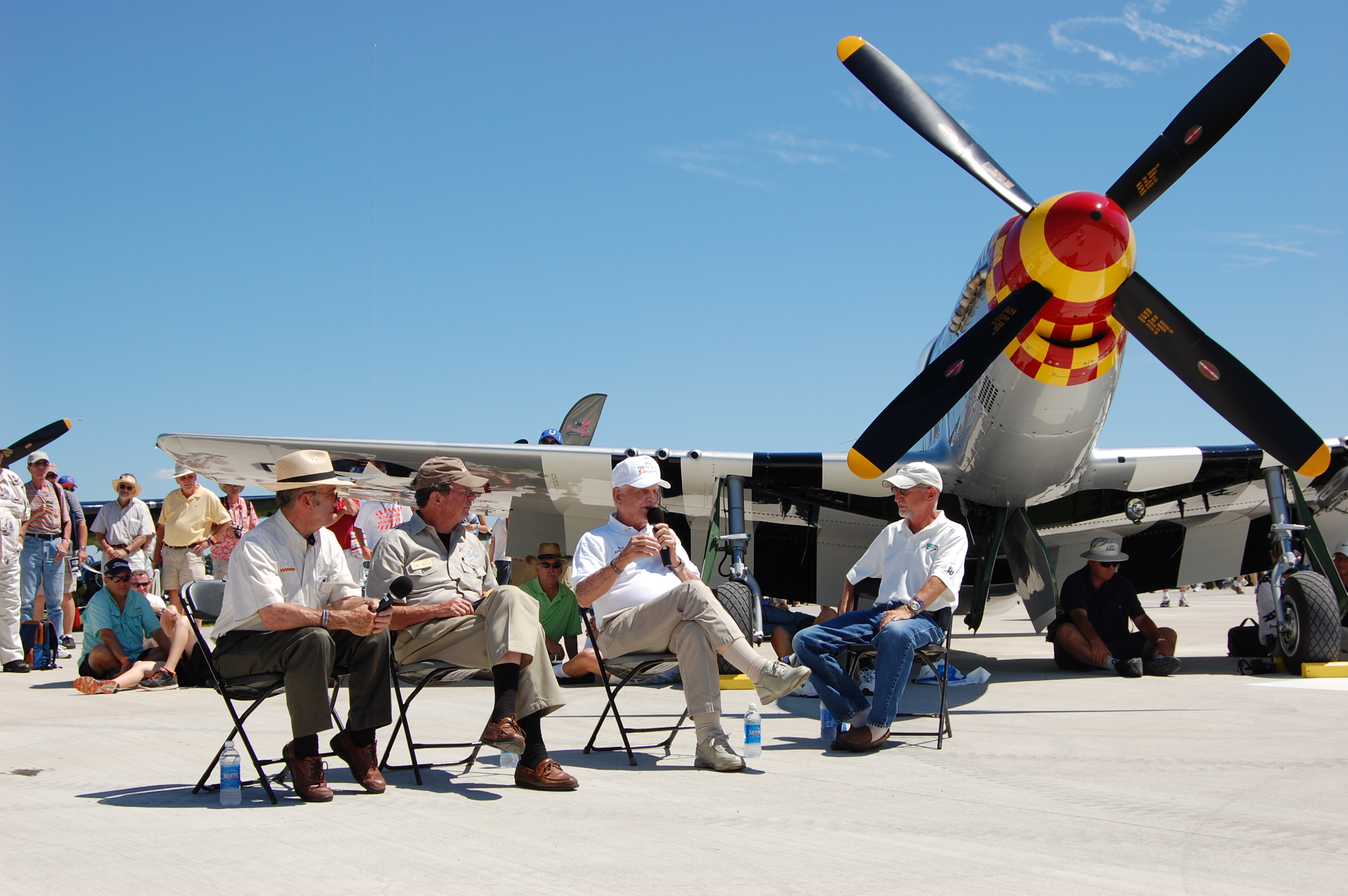 This is Colonel Bud Anderson sitting next to WWII P-51 'Old Crow' that he flew during WWII; this was taken at EAA AirVenture 2011